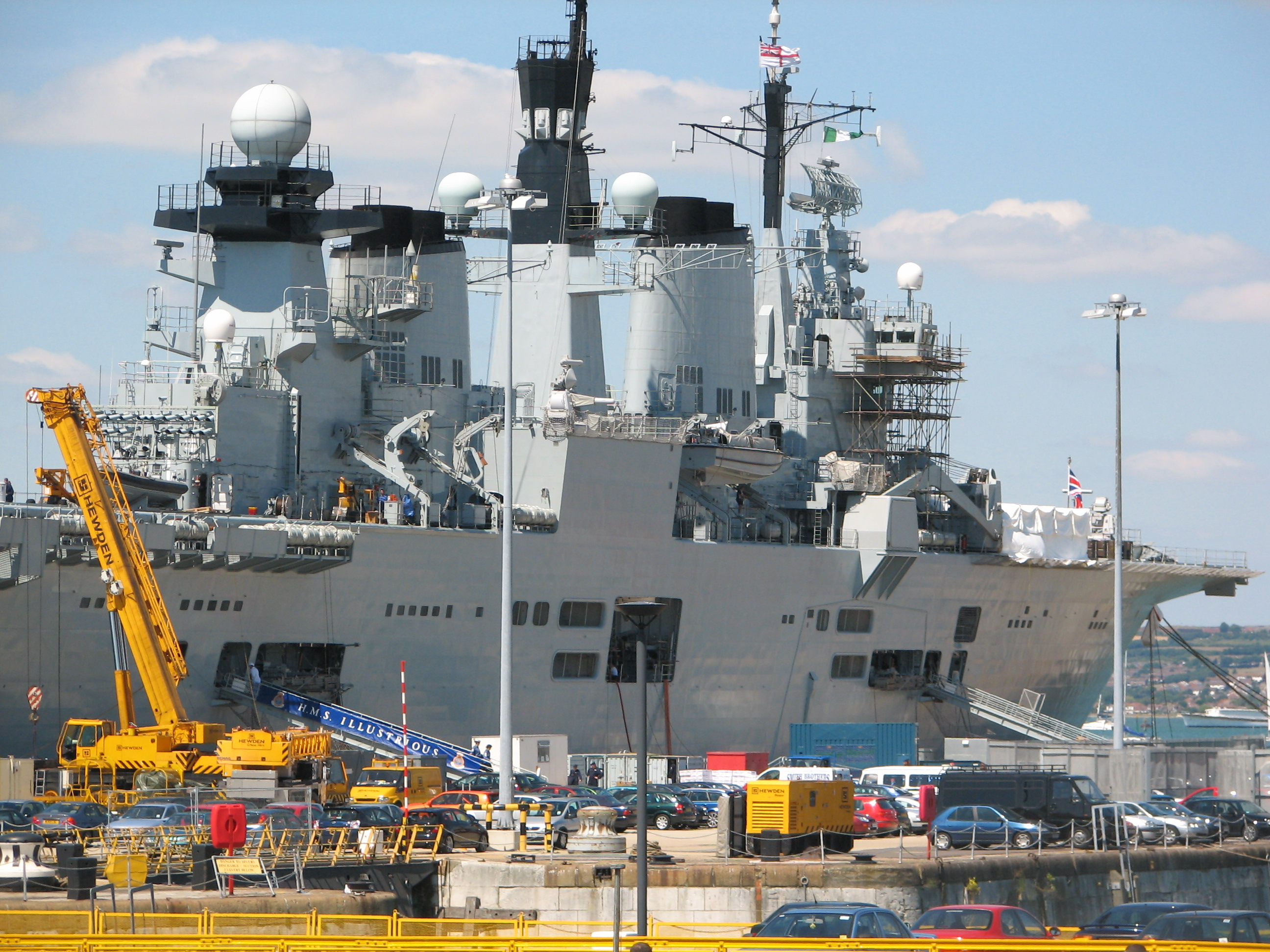 dockside view of HMS Illustrious, Portsmouth 7-21-05